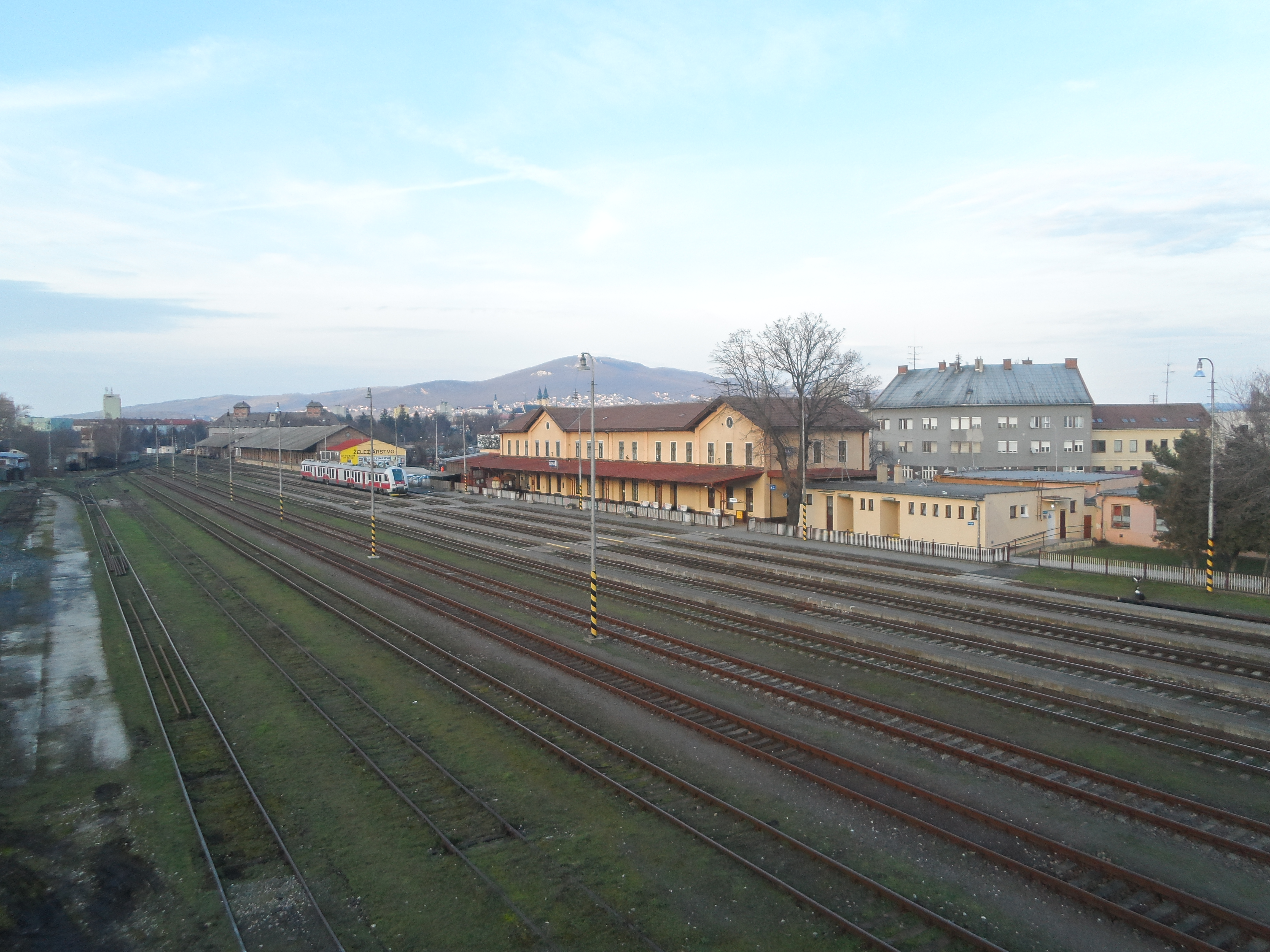 Nitra train station